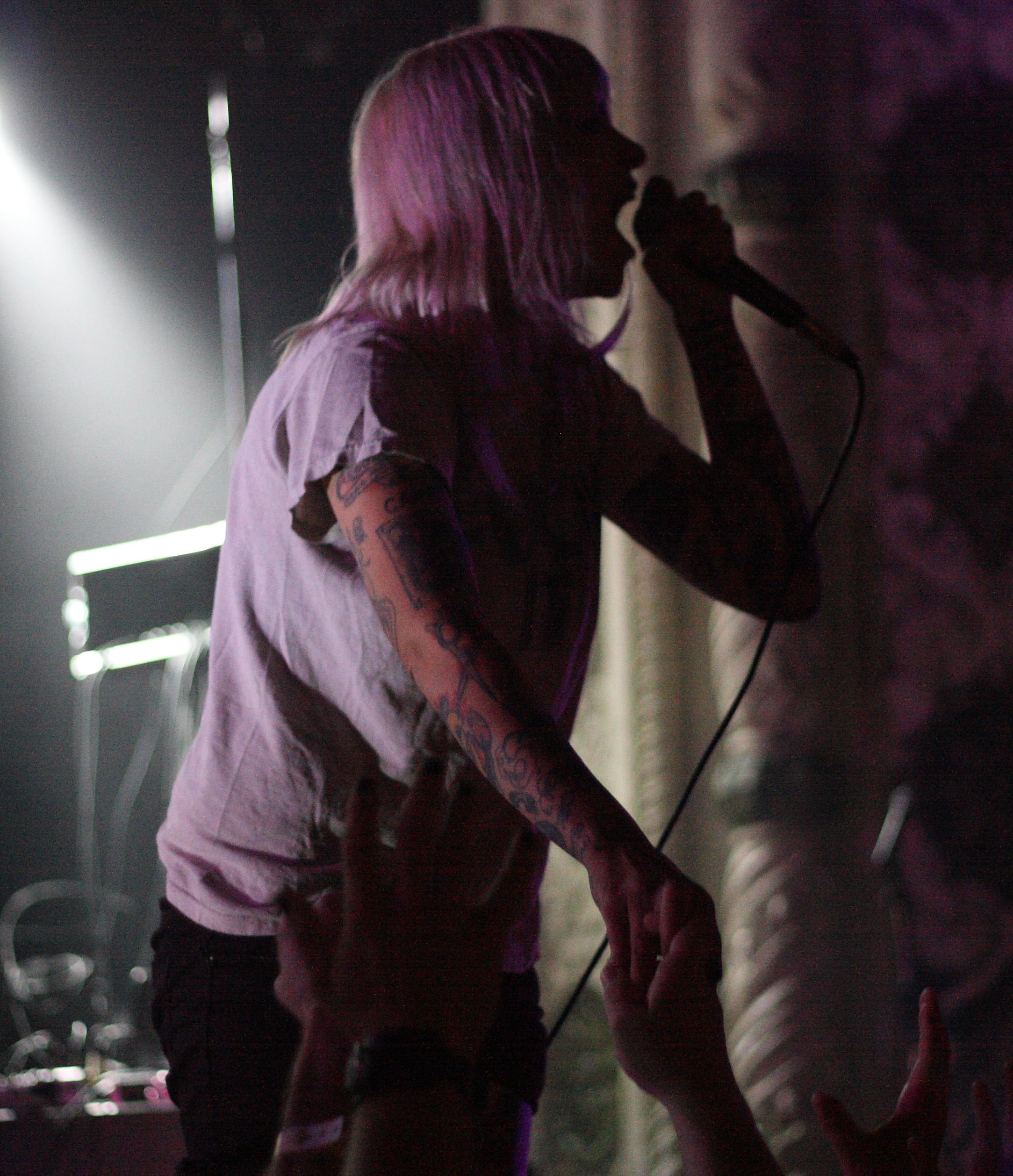 Cold Waves III: Chicago: 26/27-Sep 2014: Youth Code